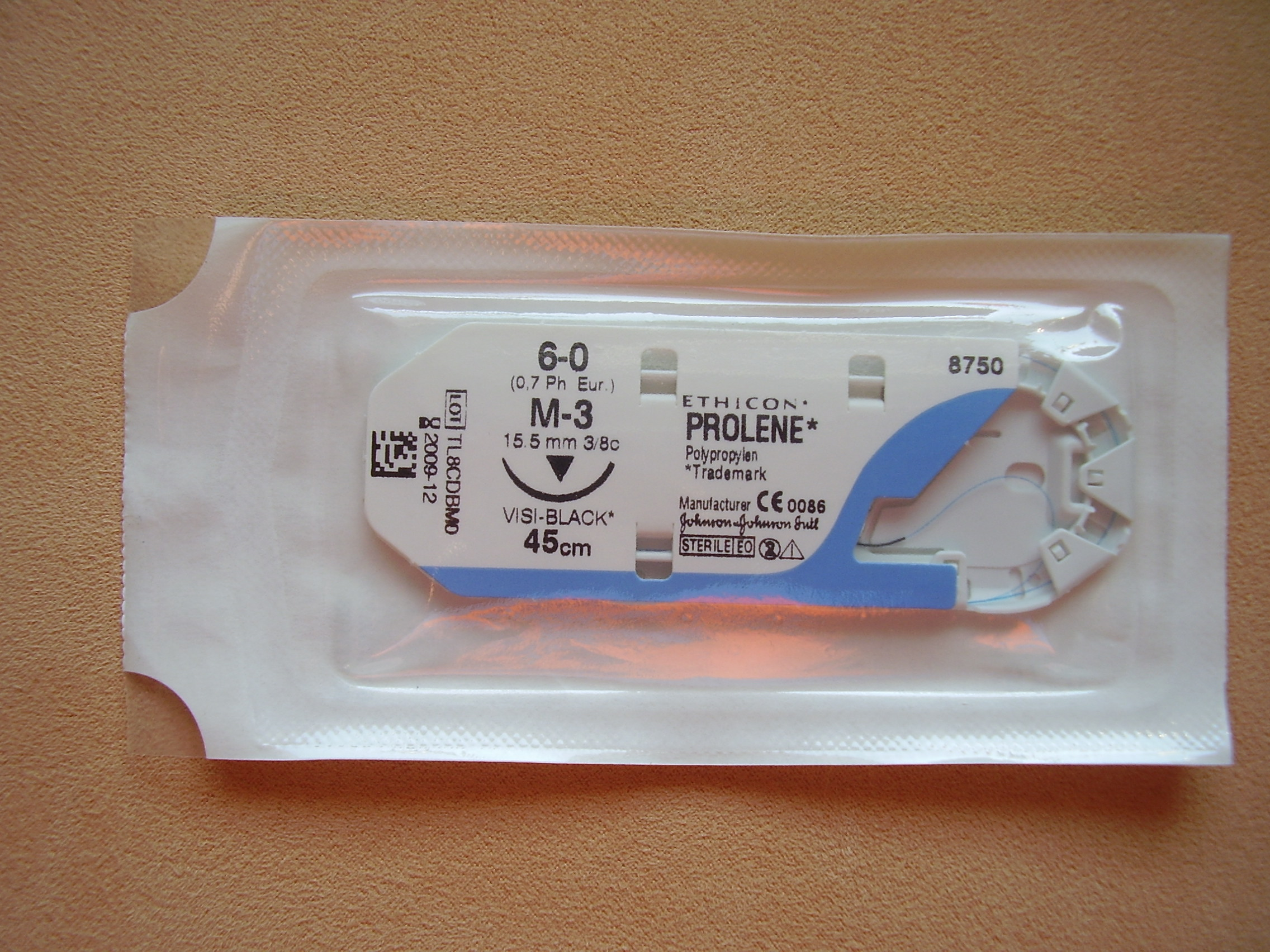 atraumatic sutures; atraumatisches Nahtmaterial; Ethicon, Prolen, nicht resorbierbar, 6x0, 45 cm, firma: Johnson & Johnson